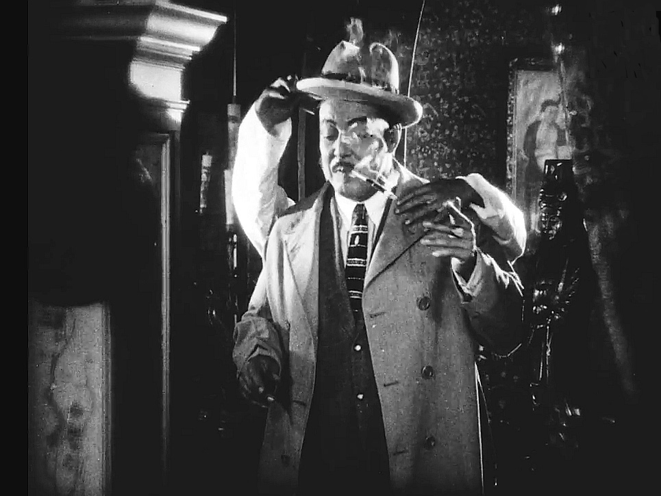 Scene from the American film East Is West (1922). Original work is pre 1923 and is in the public domain.